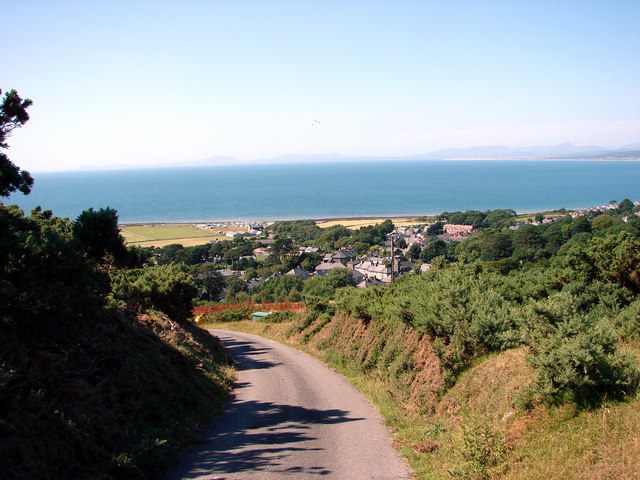 Lane down to Llwyngwril, near to Llwyngwril, Gwynedd, Wales. In the distance are the hills of the Lleyn Peninsula.